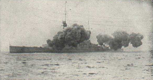 German battlecruiser SMS Derfflinger fires a salvo with her 305 mm (12") main armanent.